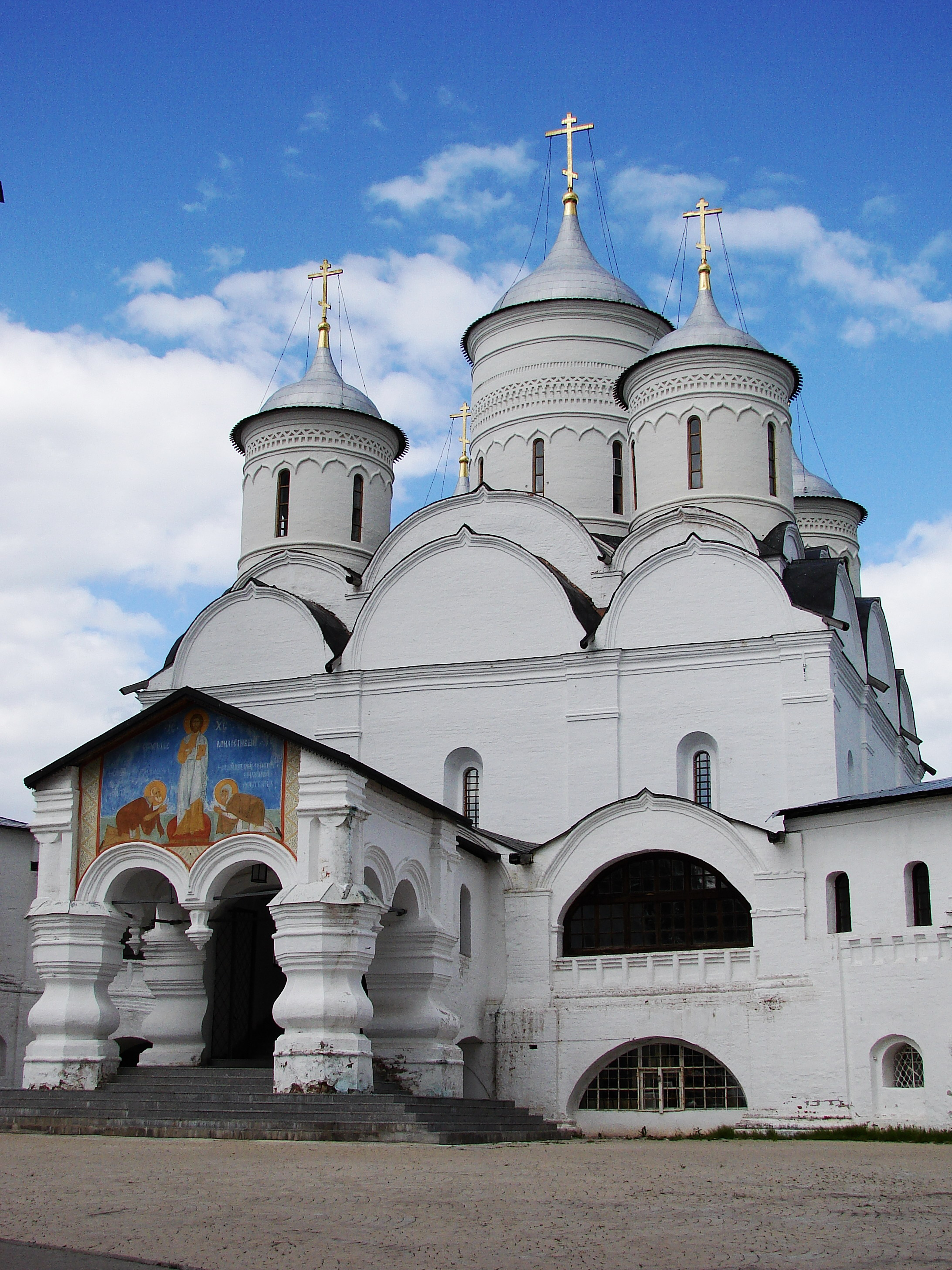 Russia, Vologda, Spaso-Prilutsky Monastery